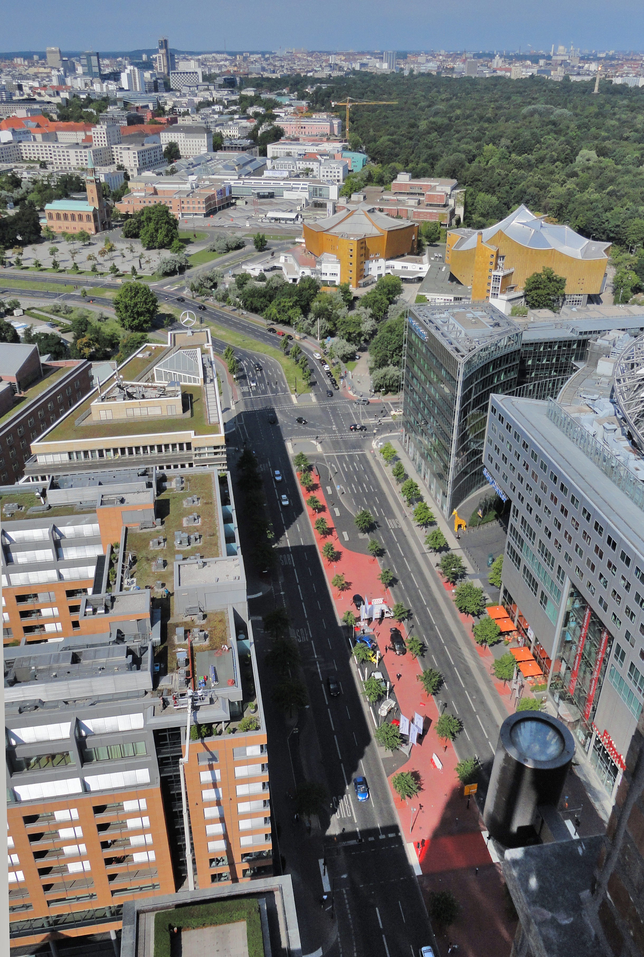 View from the Sonycentre, Berlin, Germany